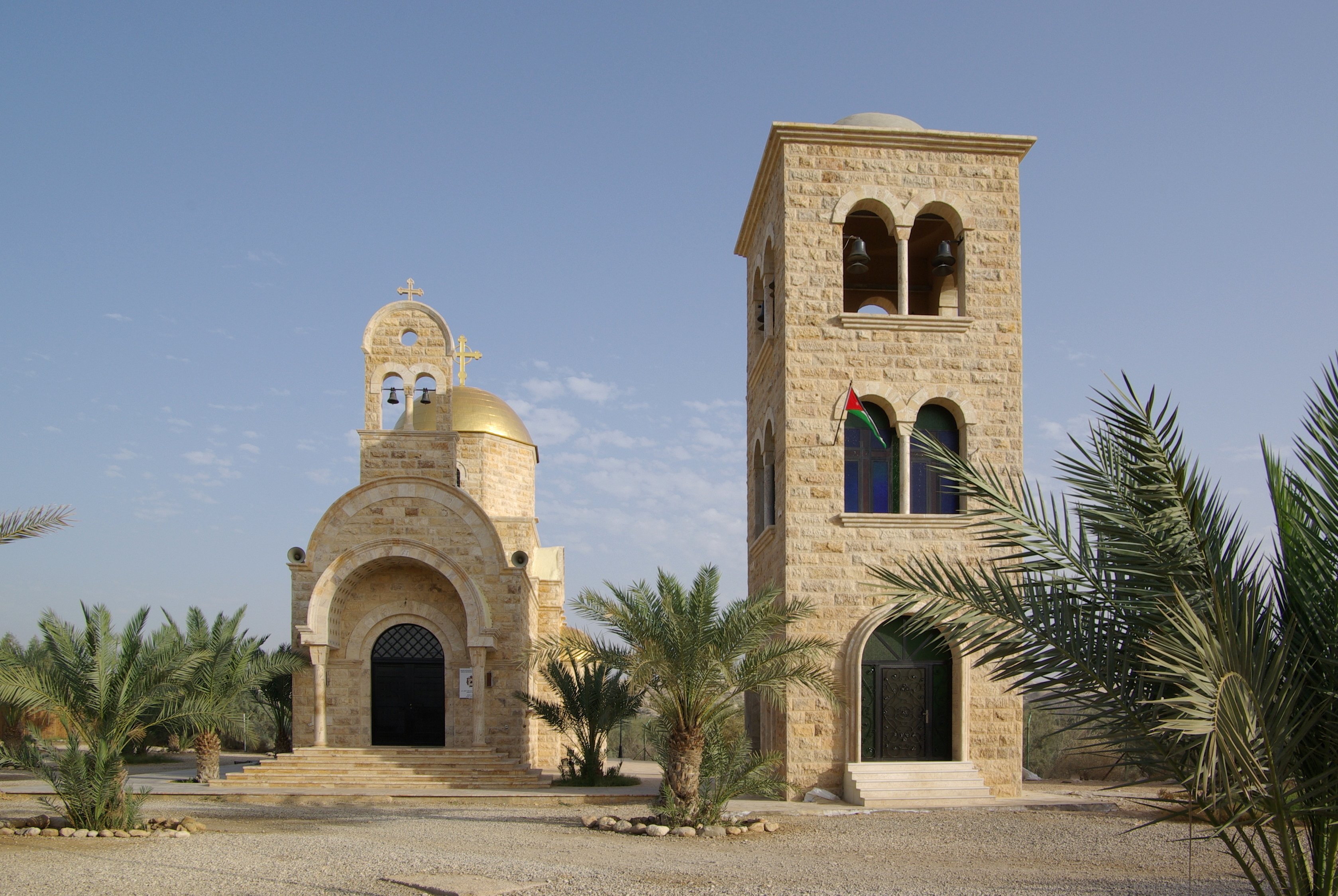 Modern church at the baptism site